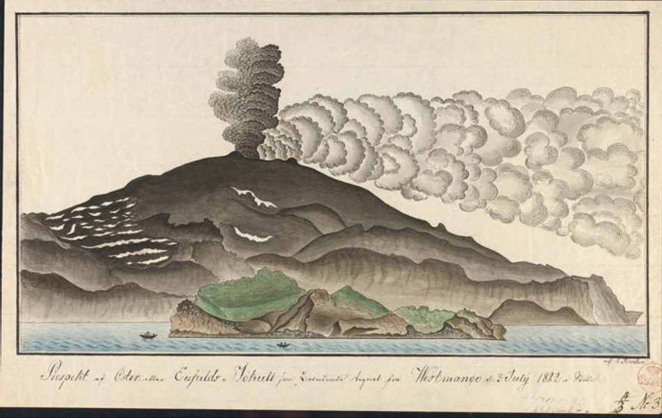 Eyjafjallajökull watercolor by Erik Druun (1822)